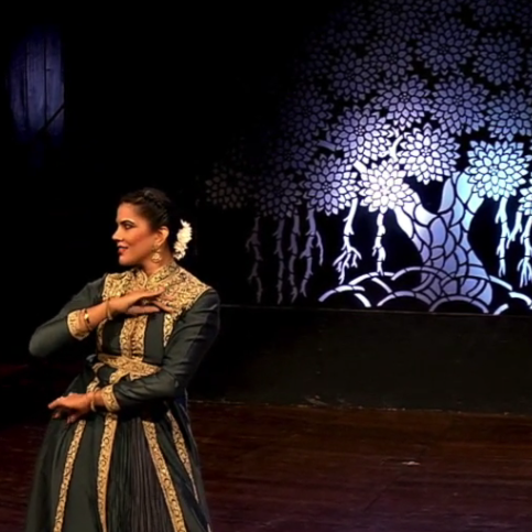 Seema Mehta dances for LeelaDanceCollective Apr 14, 2019